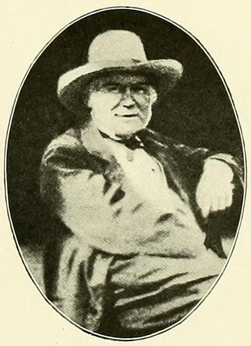 Portrait of the French botanist Charles Tulasne (1816-1884)